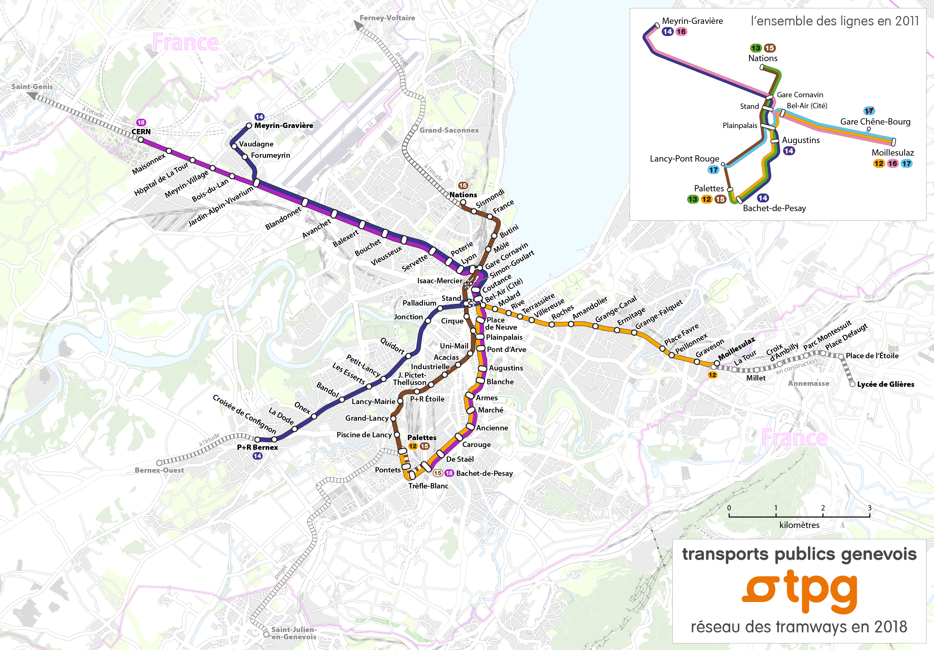 Map of the Geneva streetcar network